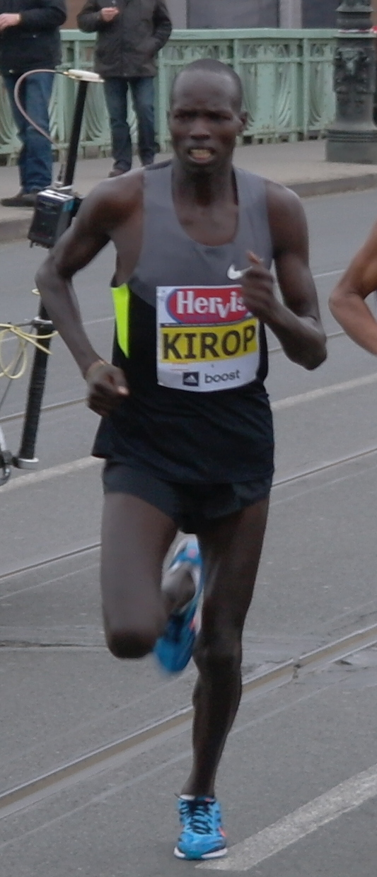 Prague Half Marathon 2013 - Pius Maiyo Kirop crossing the Čechův most a few minutes before finishing the race